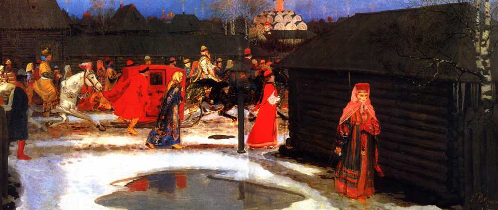 Andrei Ryabushkin: Wedding in Moscow 17 century